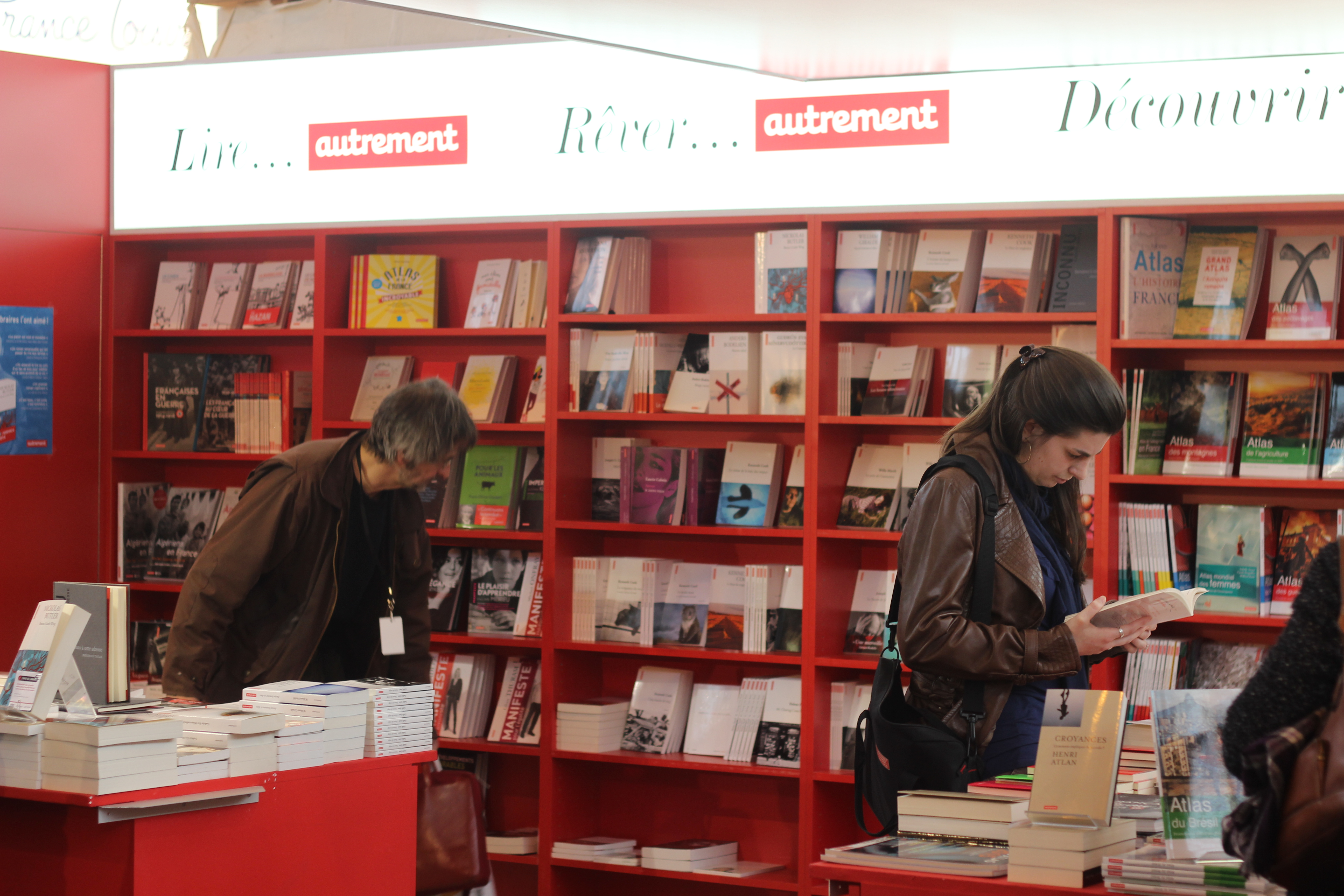 2015 Paris Book Fair, from 20 to 23 March 2015, Paris expo Porte de Versailles.